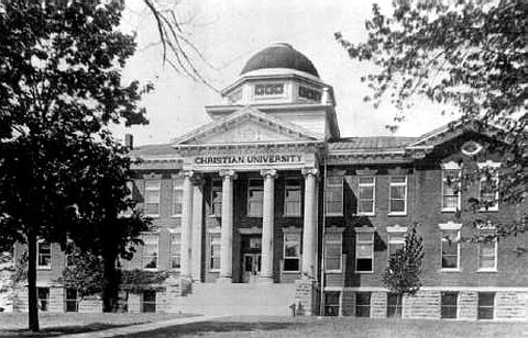 Henderson Hall, Christian University (now known as Culver-Stockton College) in Canton, Missouri. Photo taken between 1904 and 1917. The building has been on the National Register of Historic Places since 1978.